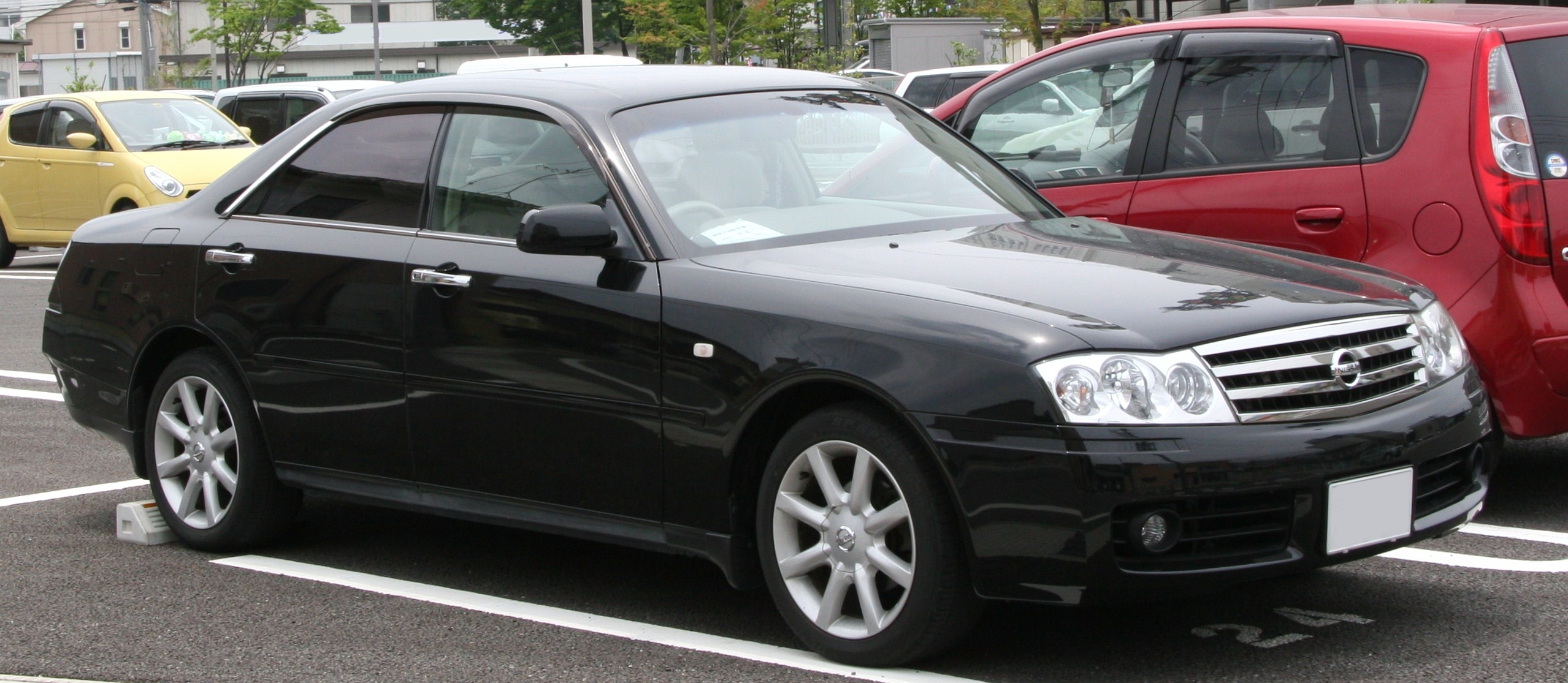 Nissan Gloria